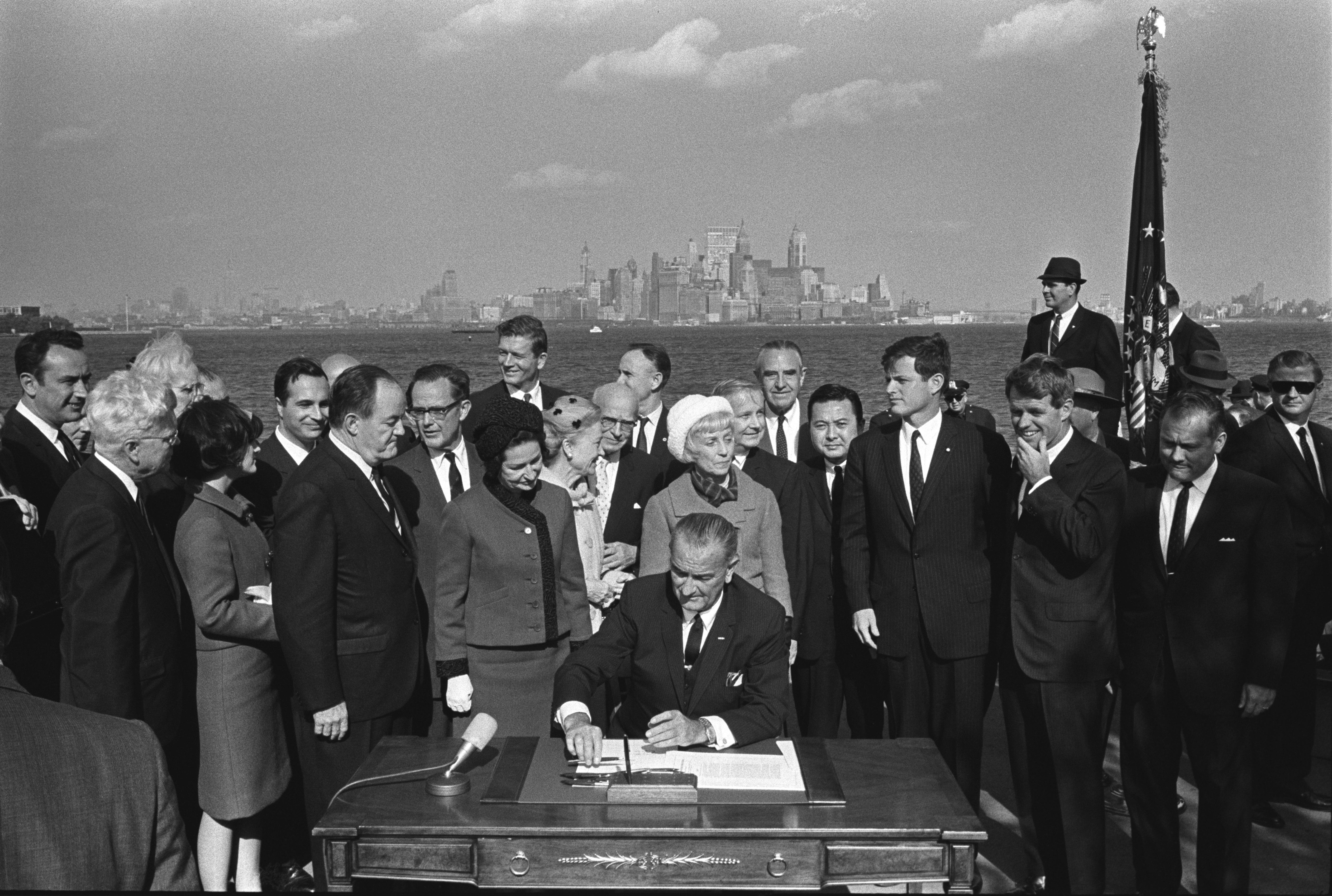 Original caption: " Event: Immigration Bill Signing Description: President Lyndon B. Johnson signs the Immigration Act as Vice President Hubert Humphrey, Lady Bird Johnson, Muriel Humphrey, Sen. Edward (Ted) Kennedy, Sen. Robert F. Kennedy, and others look on. Location: Liberty Island, New York, New York"